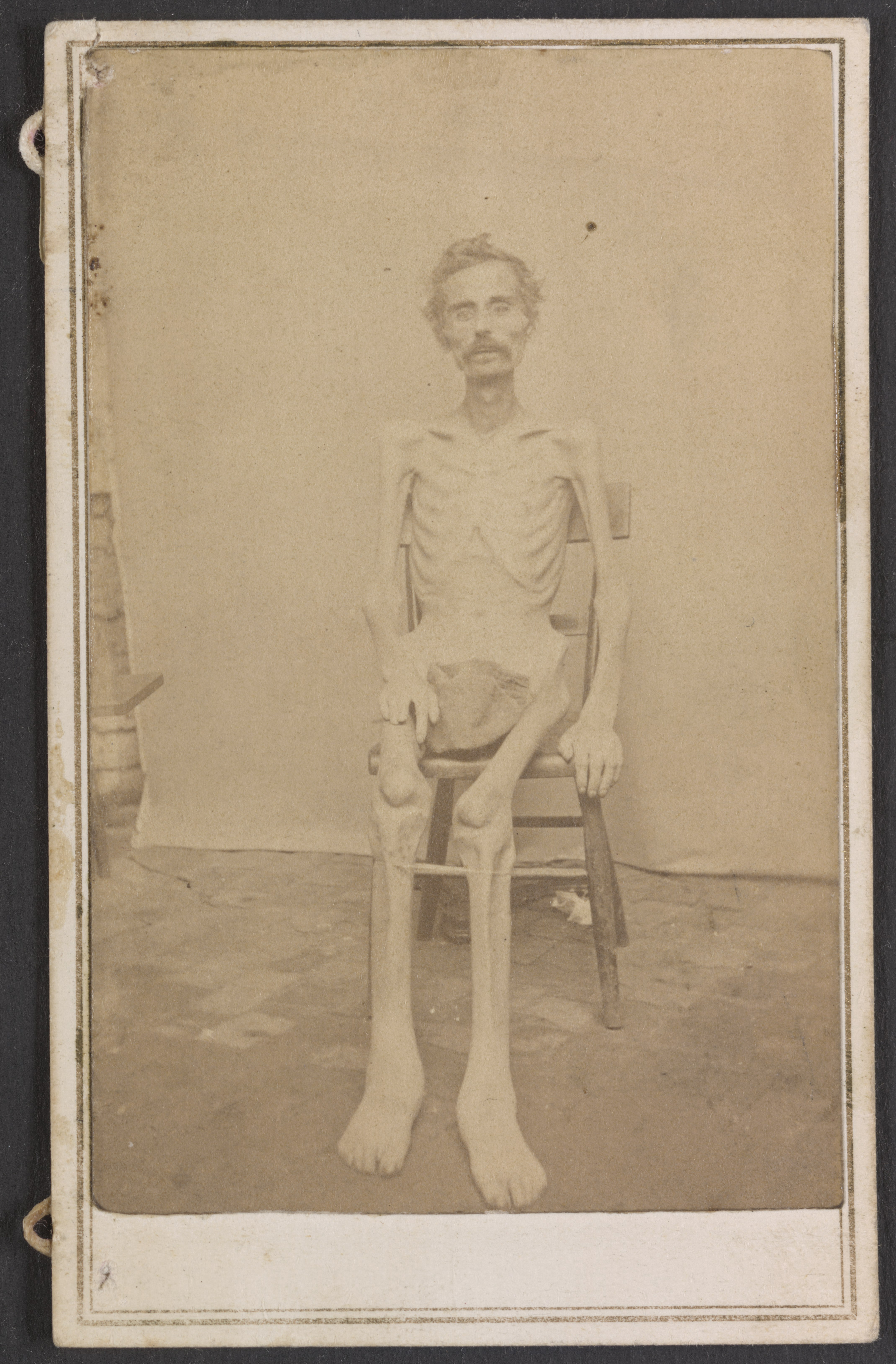 Title: St. John's College. U.S. General Hospital Div. No. 2. Annapolis, Md. Private Phillip Hattle, Co. I. 31st Pa. Vol's. admitted from the Flag of Truce Steamer June 6th 1865, died June 25th 1865, caused by ill treatment while a prisoner of war in the hands of the rebels. Abstract/medium: 1 photographic print on carte de visite mount : albumen ; 10.0 x 6.2 cm (mount)